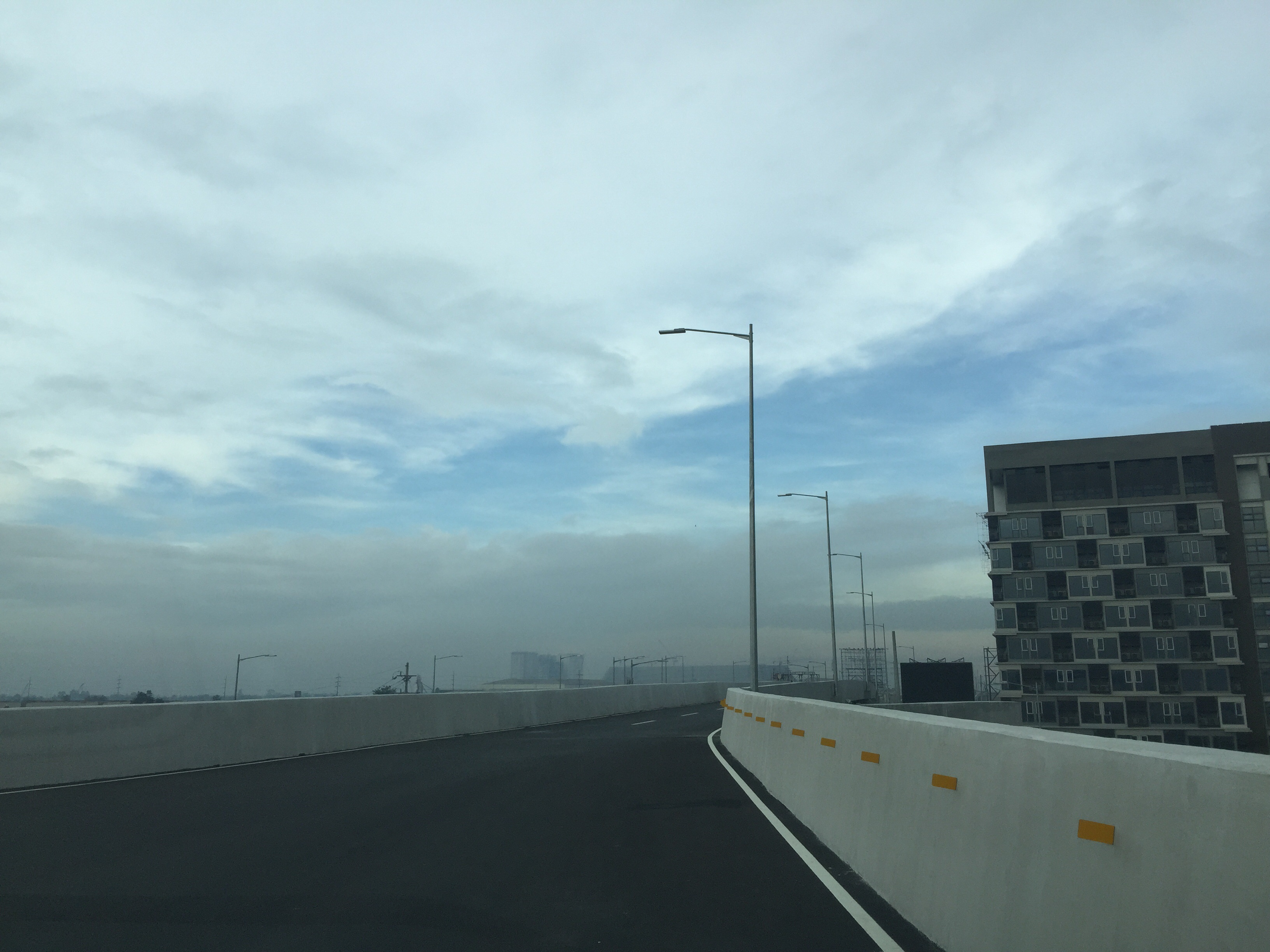 The newly opened NAIA Expressway in Parañaque, Metro Manila (NAIA Terminals 1&2 to Macapagal Boulevard segment)